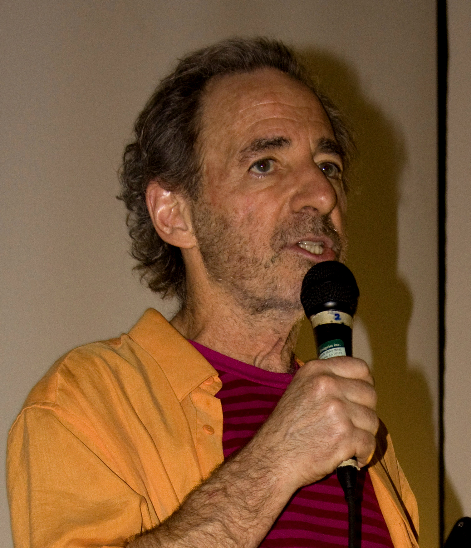 RT4_Keynote_Harry Shearer